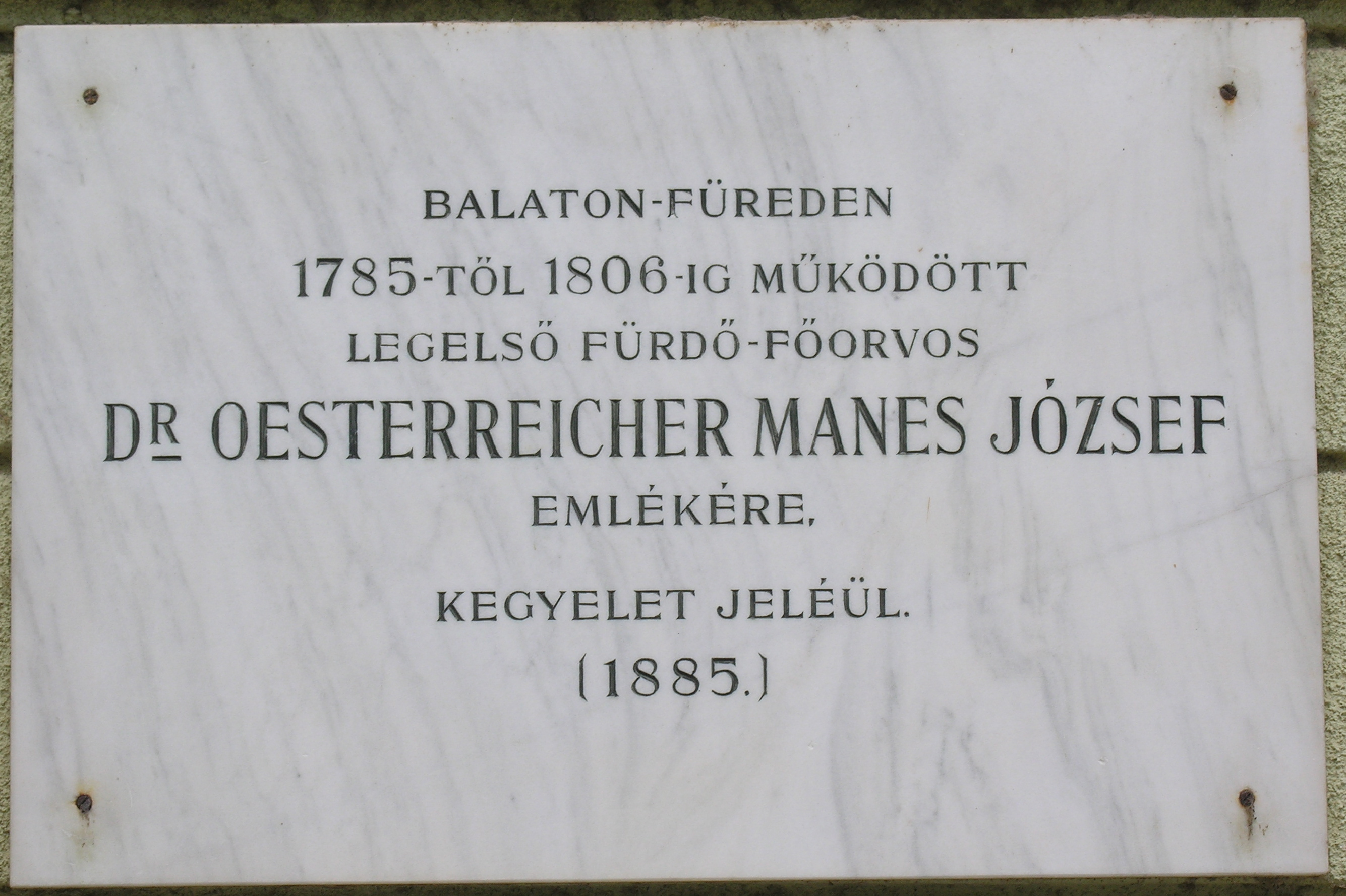 Commemorative plaque of József Österreicher Manes in Balatonfüred, Gyógy Square No 2